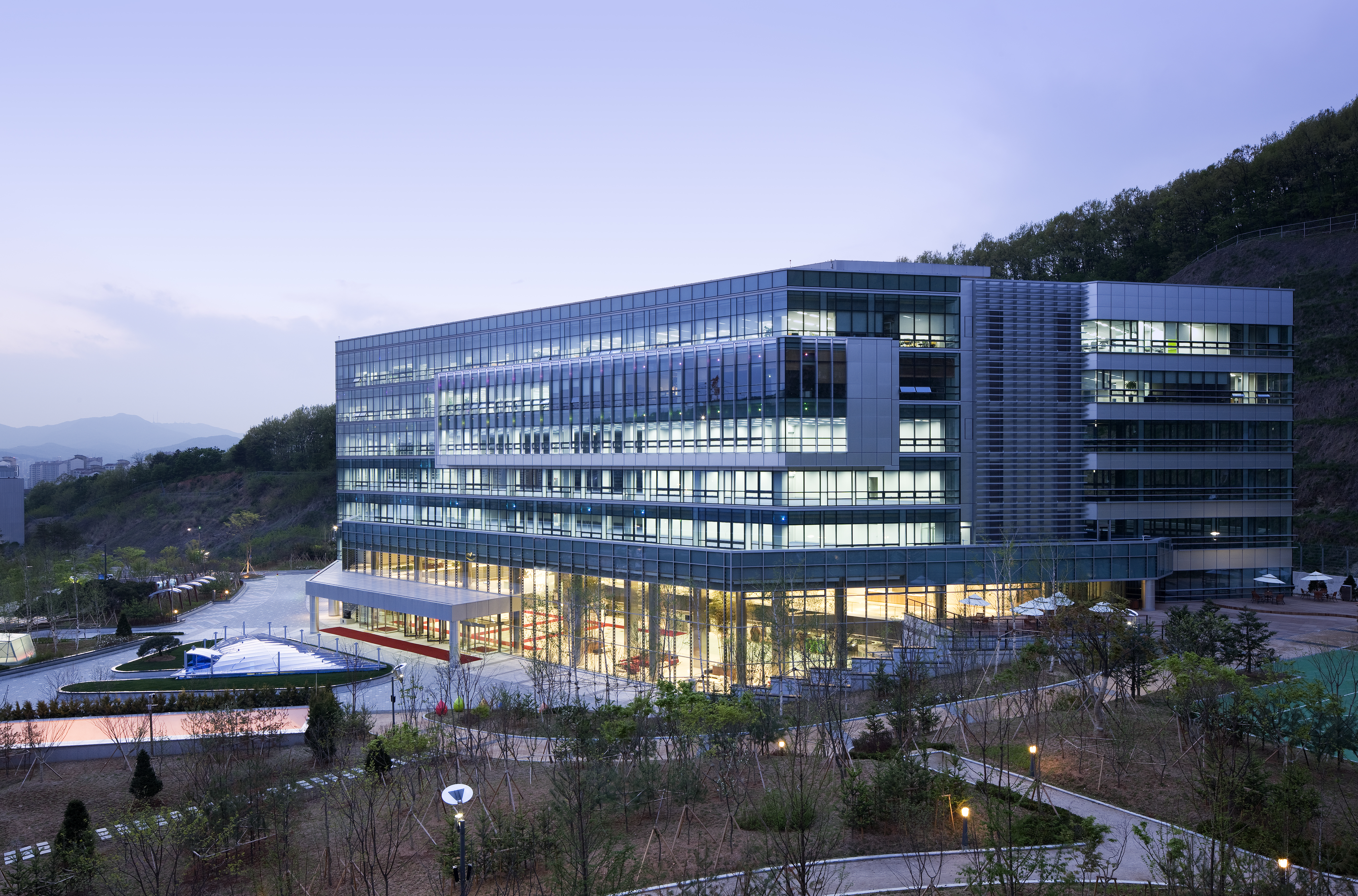 company image